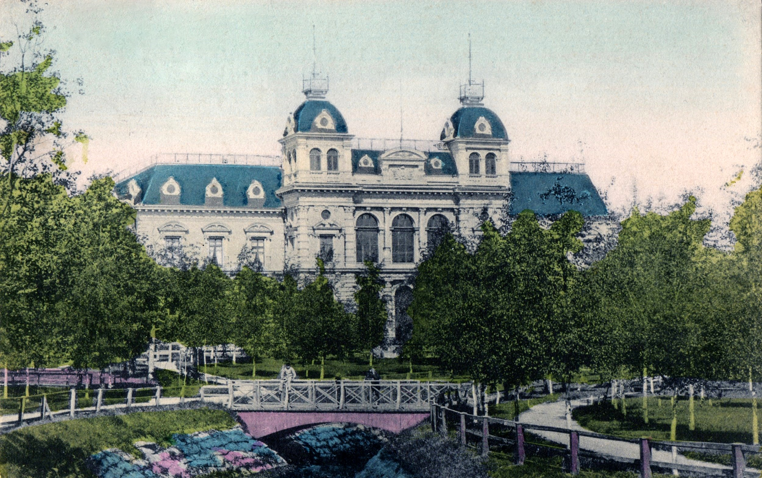 Oulu City Hall in an old postcard. At the time it was a restaurant called Seurahuone.